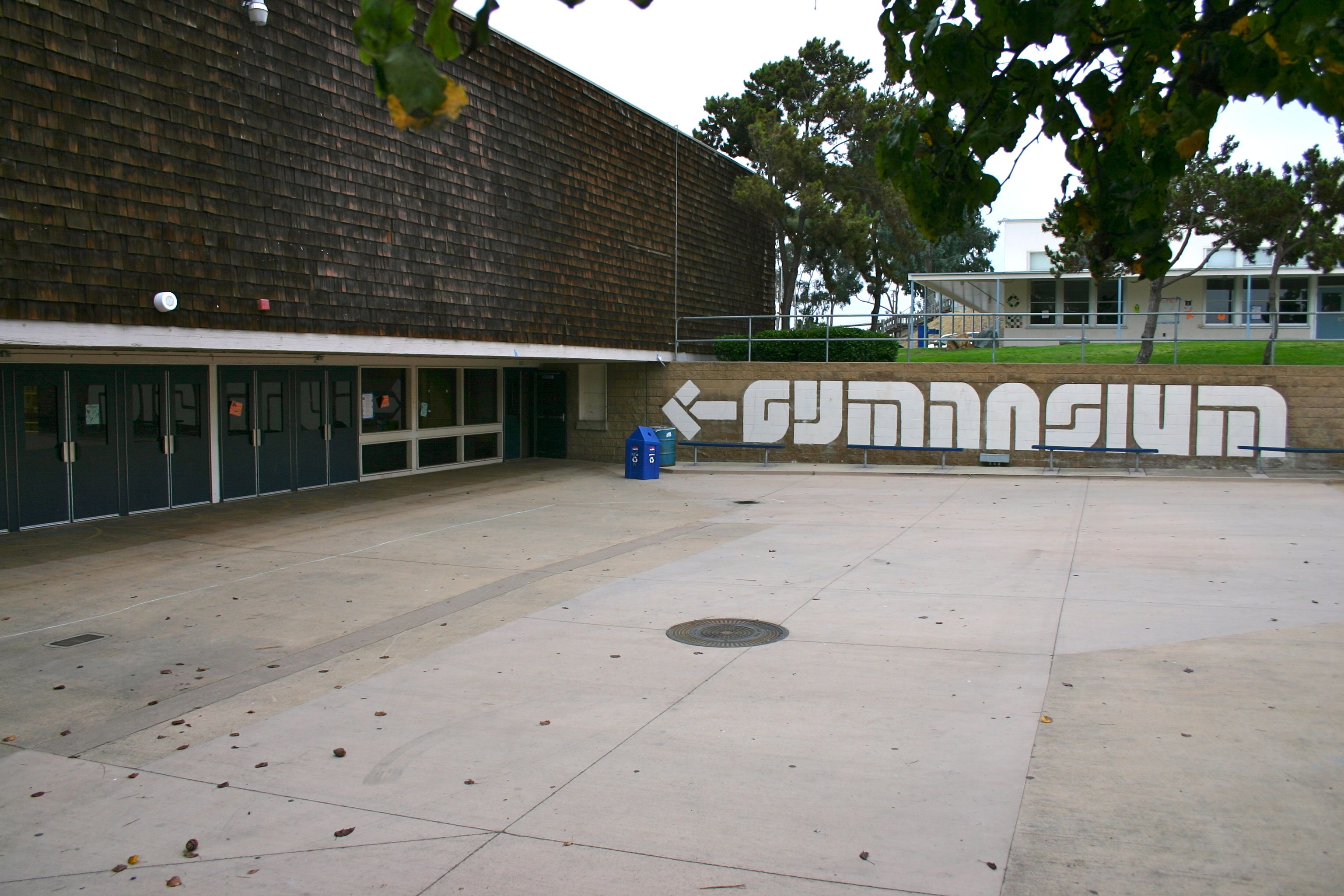 San Dieguito Academy Object location33° 02′ 17.04″ N, 117° 16′ 28.91″ W